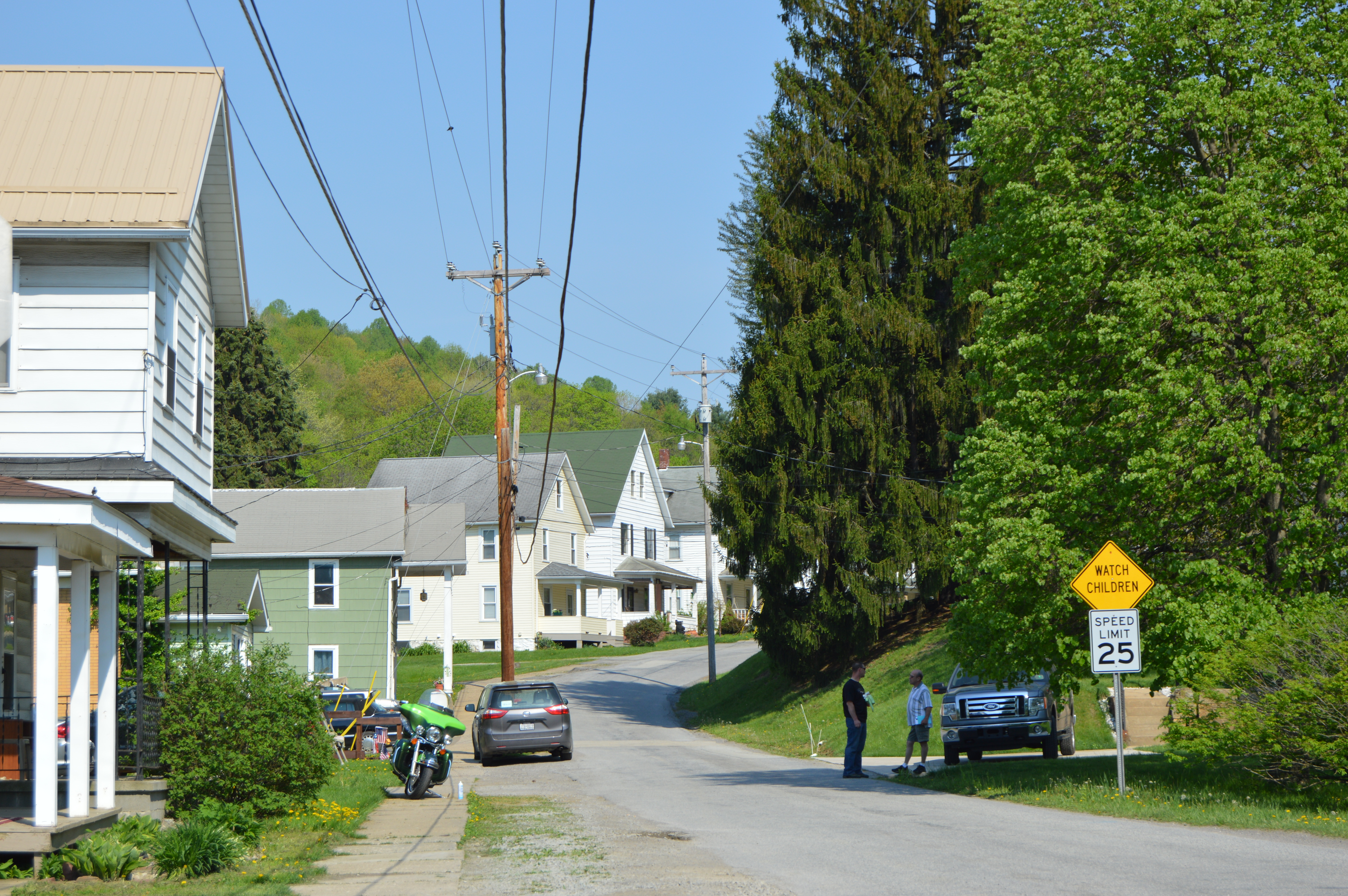 Houses on the southern side of Indiana Road, seen looking west from Shelocta Street (Pennsylvania Route 954), in Creekside, Pennsylvania, United States.